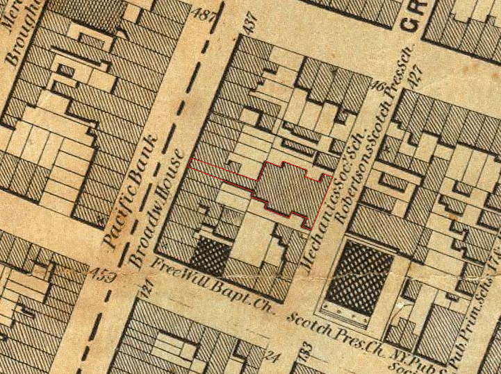 Excerpt of 1852 map of New York City, showing location of Mechanic's Hall, outlined in red by uploader. Block is bounded by Broadway, Grand, Crosby and Broome.